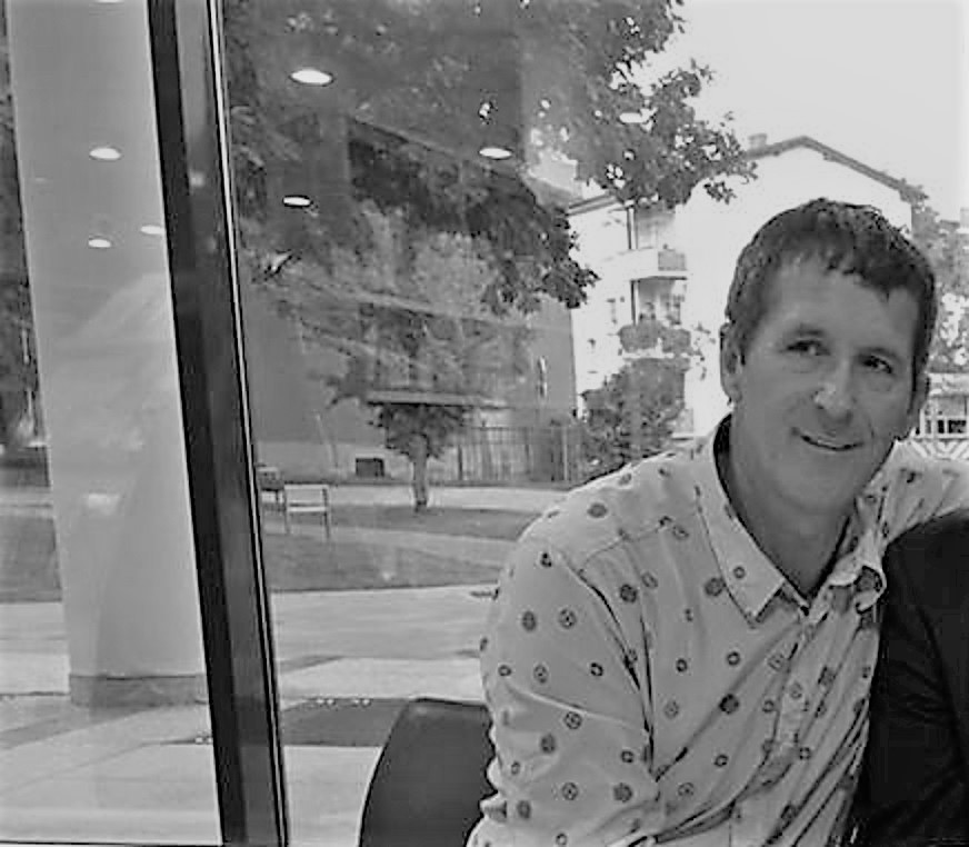 Branko Pintarič (1967-) Prekmurian Slovene amateur actor, writer, poet, editor. Murska Sobota 2018